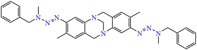 Bis-triazene analog of Torger's base